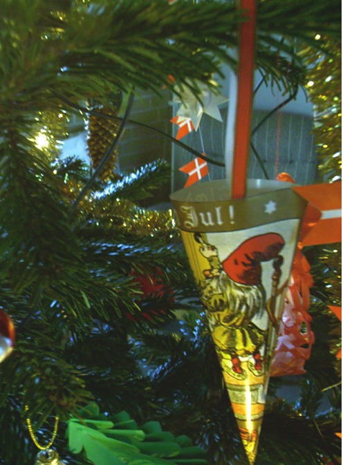 Photo of Christmas craft preprinted papercone with elf, Niels Jahn Knudsen